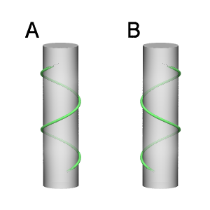 Diagram of helix. (A) right-handed, (B) left-handed.